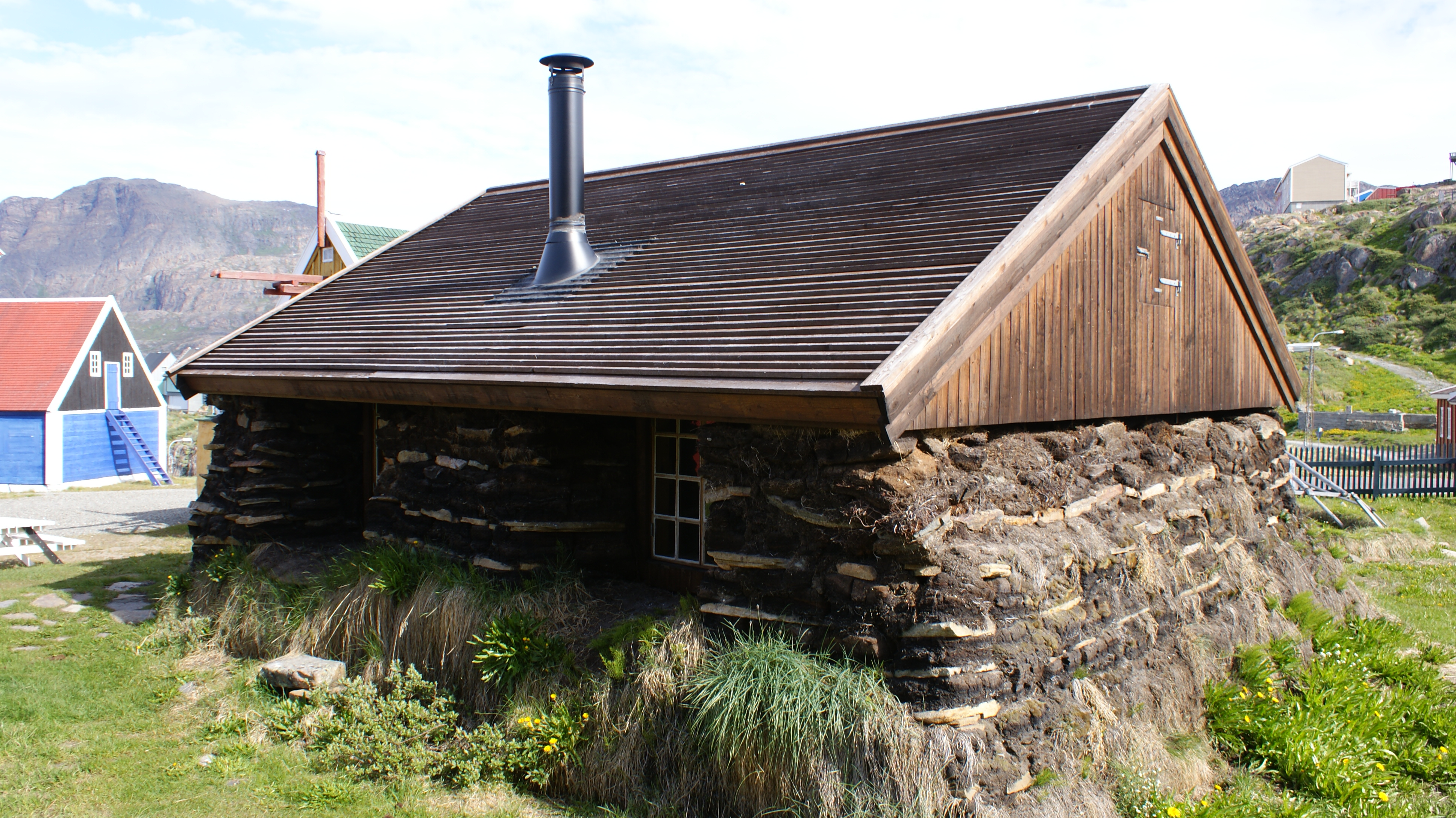 A turf (peat) house, part of Sisimiut Museum in Sisimiut, Greenland.